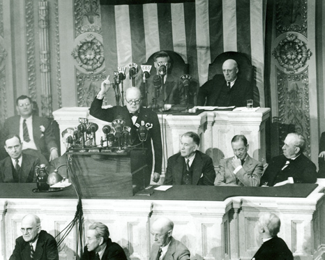 Winston Churchill addresses the United States Congress in 1943.